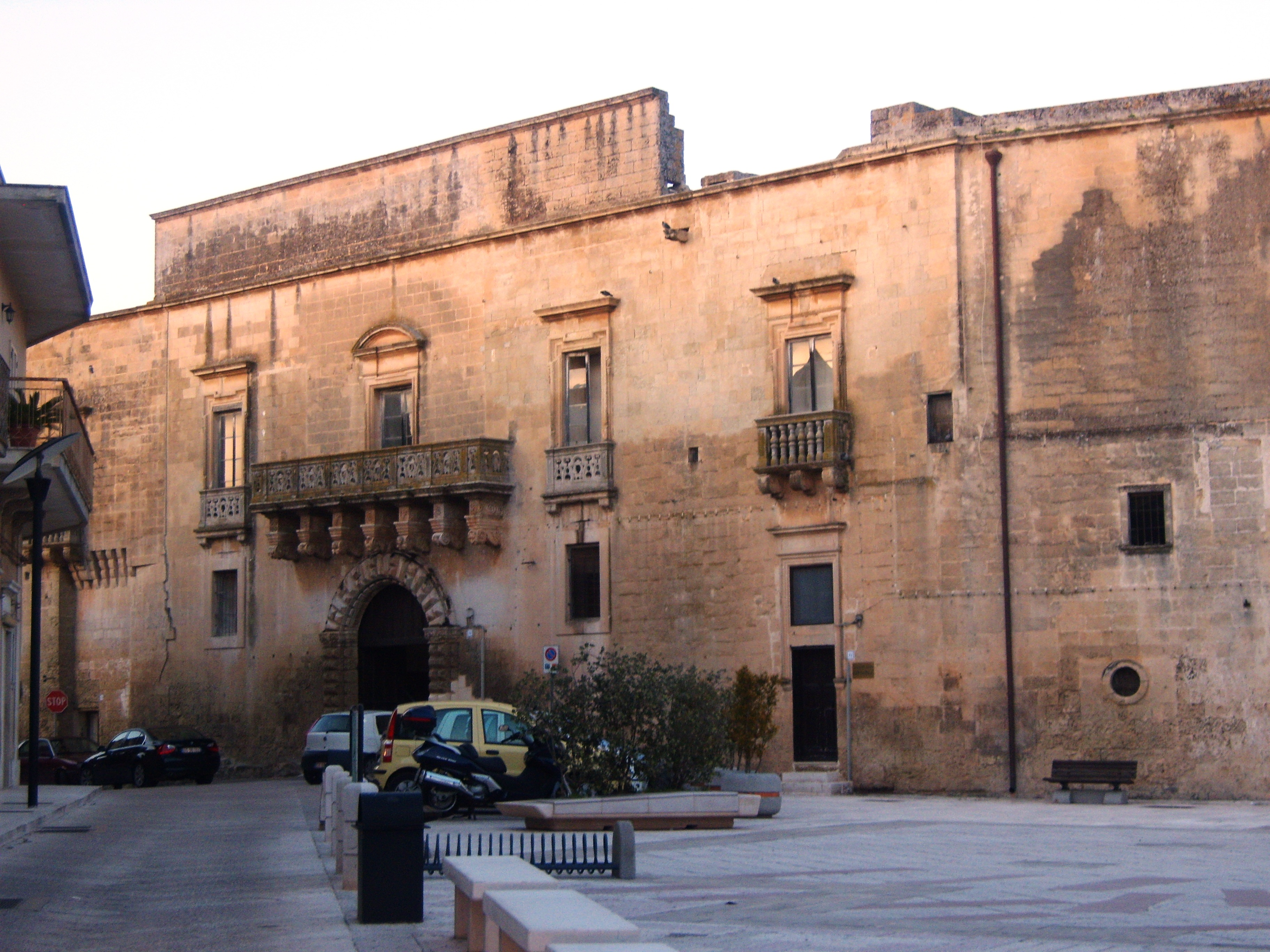 Piazza Vittoria in Caprarica di Lecce, Province of Lecce - Apulia